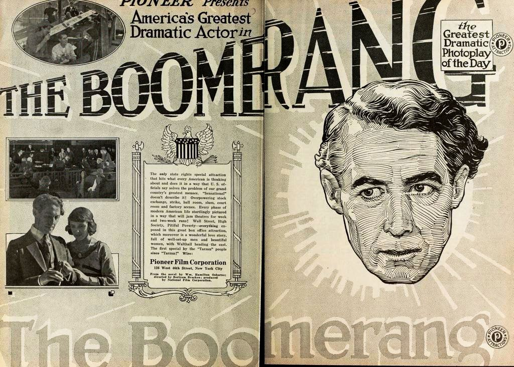 Ad for the American film The Boomerang (1919) with Henry B. Walthall and Nina Byron, on pages 634 and 635 of the May 3, 1919 Moving Picture World.